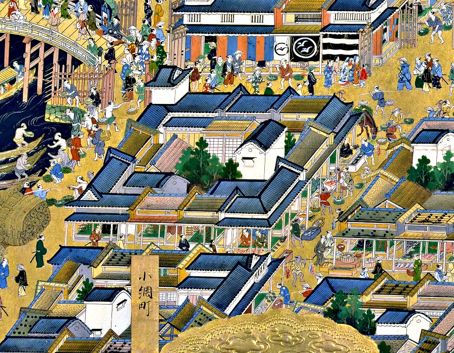 BOTTOM OF SECOND PANEL, Left Screen (Nihonbashi Bridge, Nihonbashi Kosatsuba (notice board), Koamicho, Merchant shops in Edo (a fish market in Moto Odawaracho), Riverside in downtown Edo (unloading rice)). "View of Edo" (Edo zu) pair of six-panel folding screens (17th century).